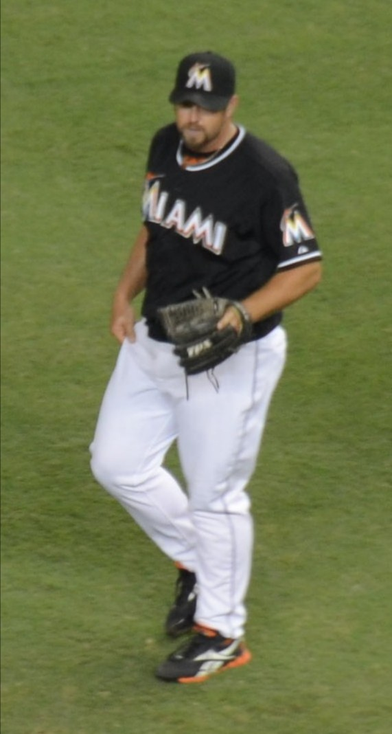 Heath Bell